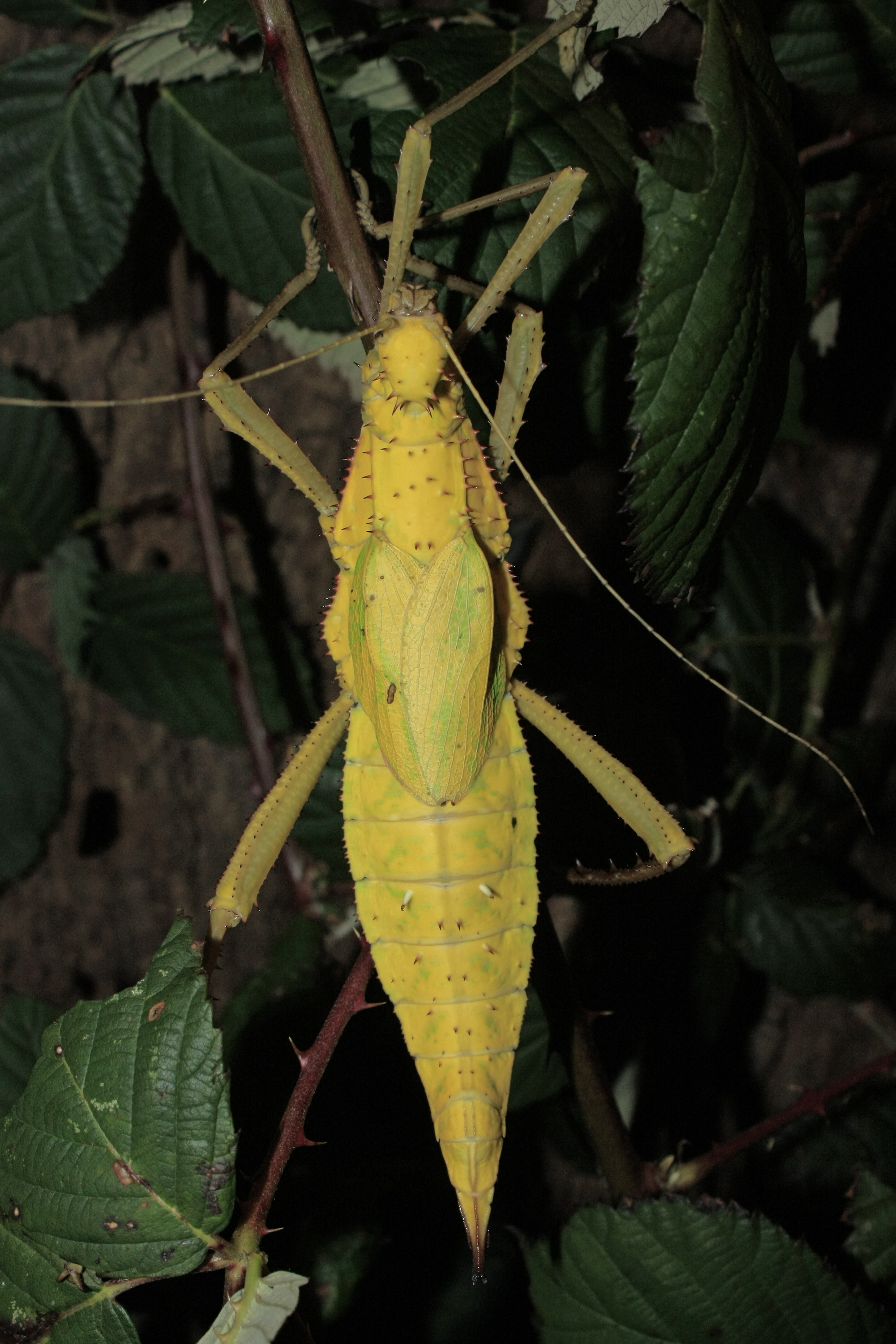 yellow female of Malaysian Giant Jungle Nymph (Heteropteryx dilatata)